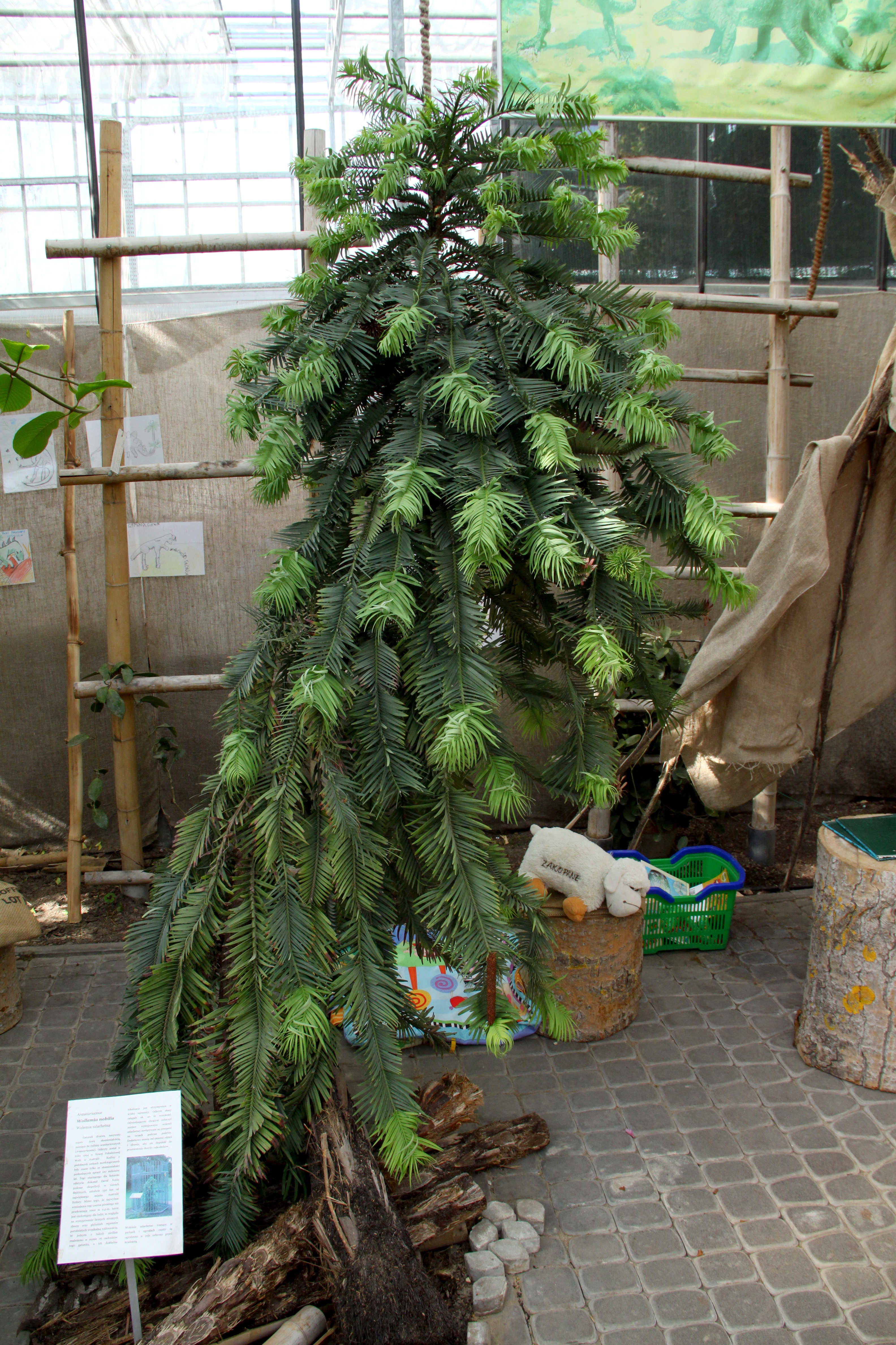 Wollemi pine (Wollemia nobilis) in a greenhouse in Botanic Garden of Polish Academy of Sciences in Warsaw, Poland